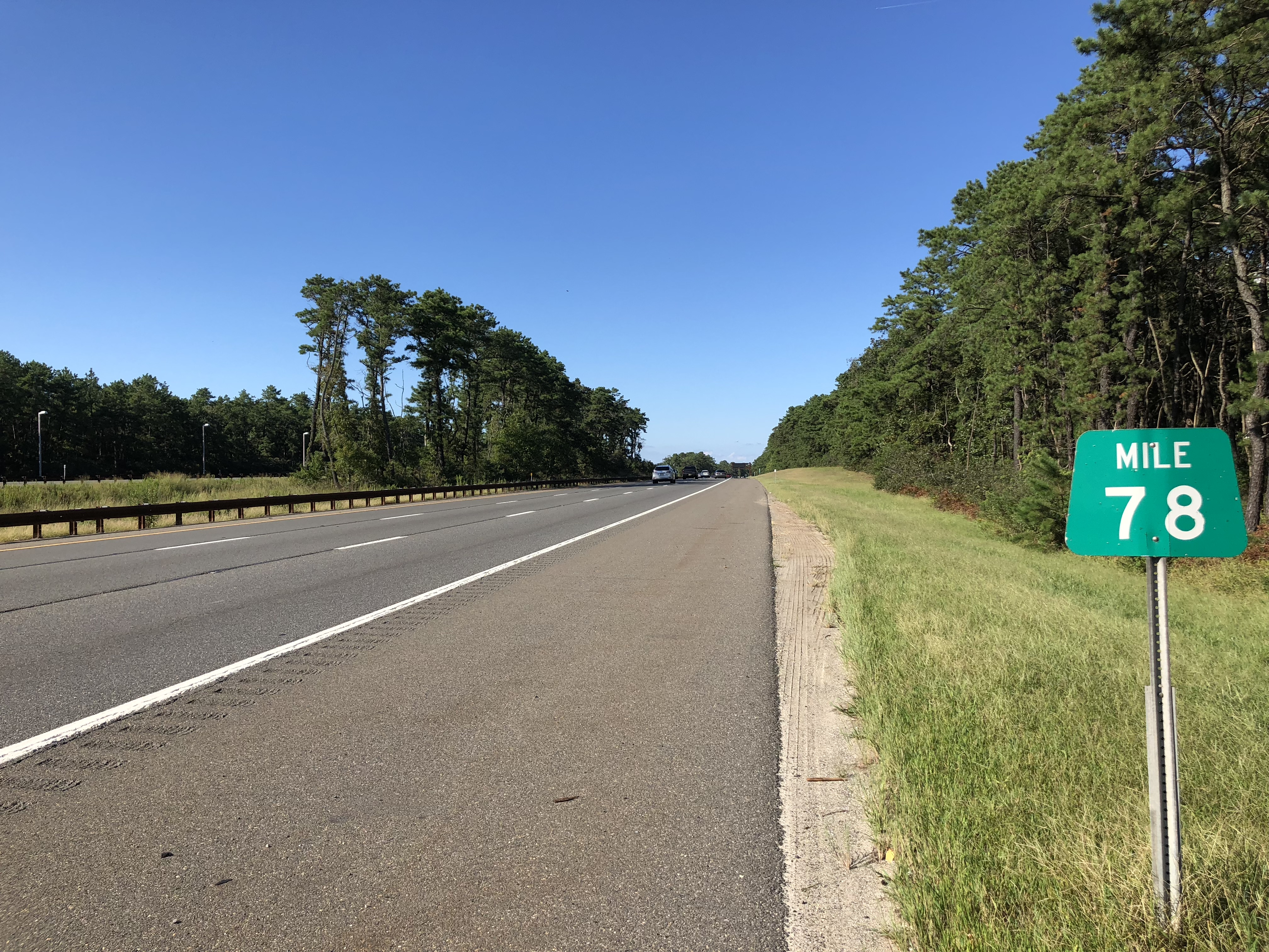 View north along New Jersey State Route 444 (Garden State Parkway) just north of Exit 77 in Berkeley Township, Ocean County, New Jersey